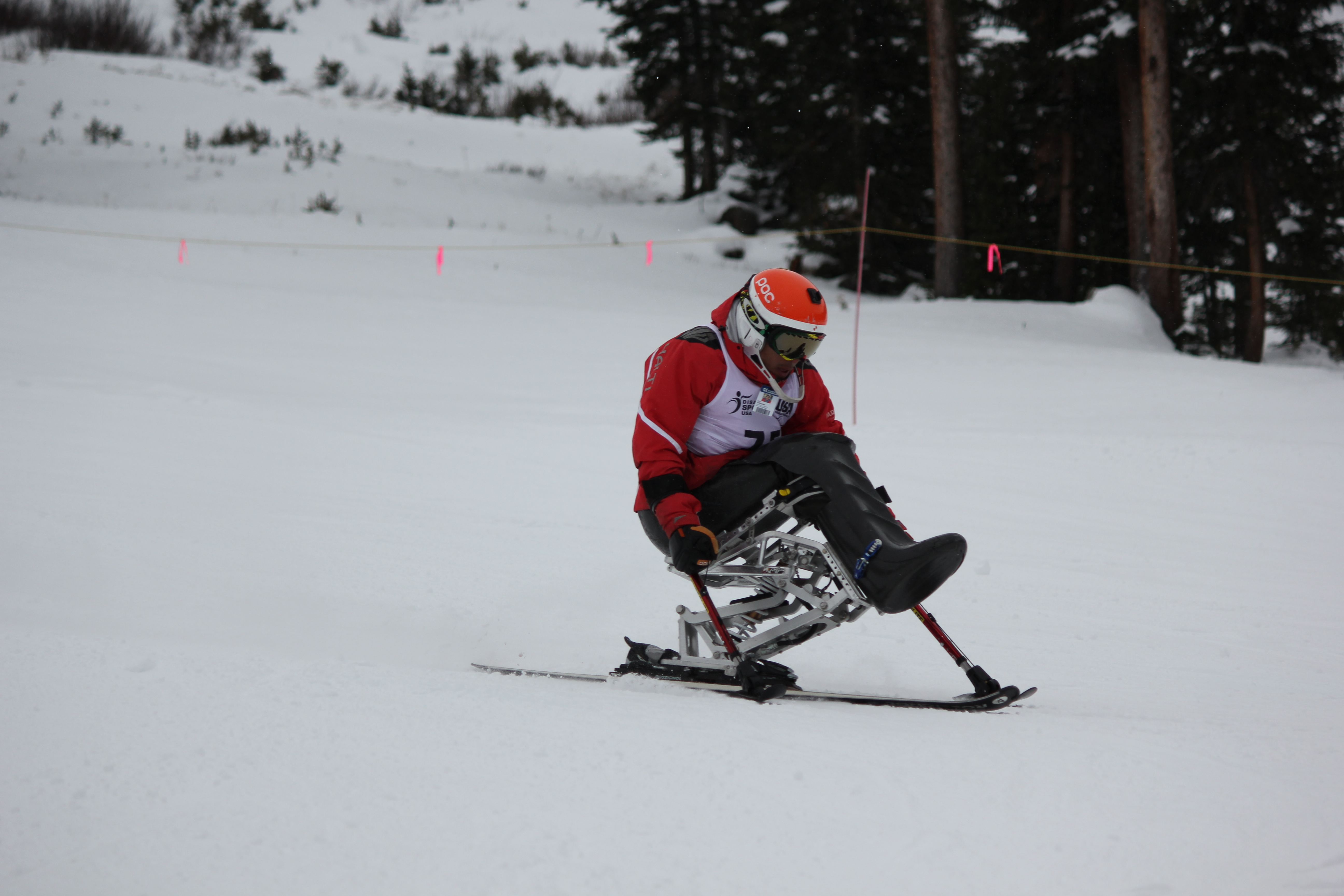 Arly Velazquez on 14 December 2012 on the slalom course at the IPC Nor-Am Cup.